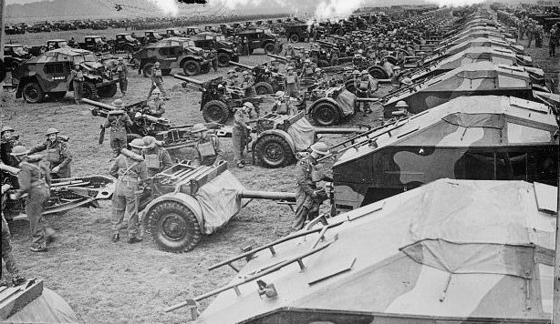 British Army Morris C8 Quad artillery tractors with 25-pdr field guns, circa 1941-42.